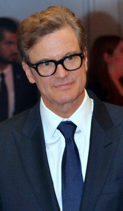 Colin Firth in Paris at the French premiere of "Bridget Jones's Baby"